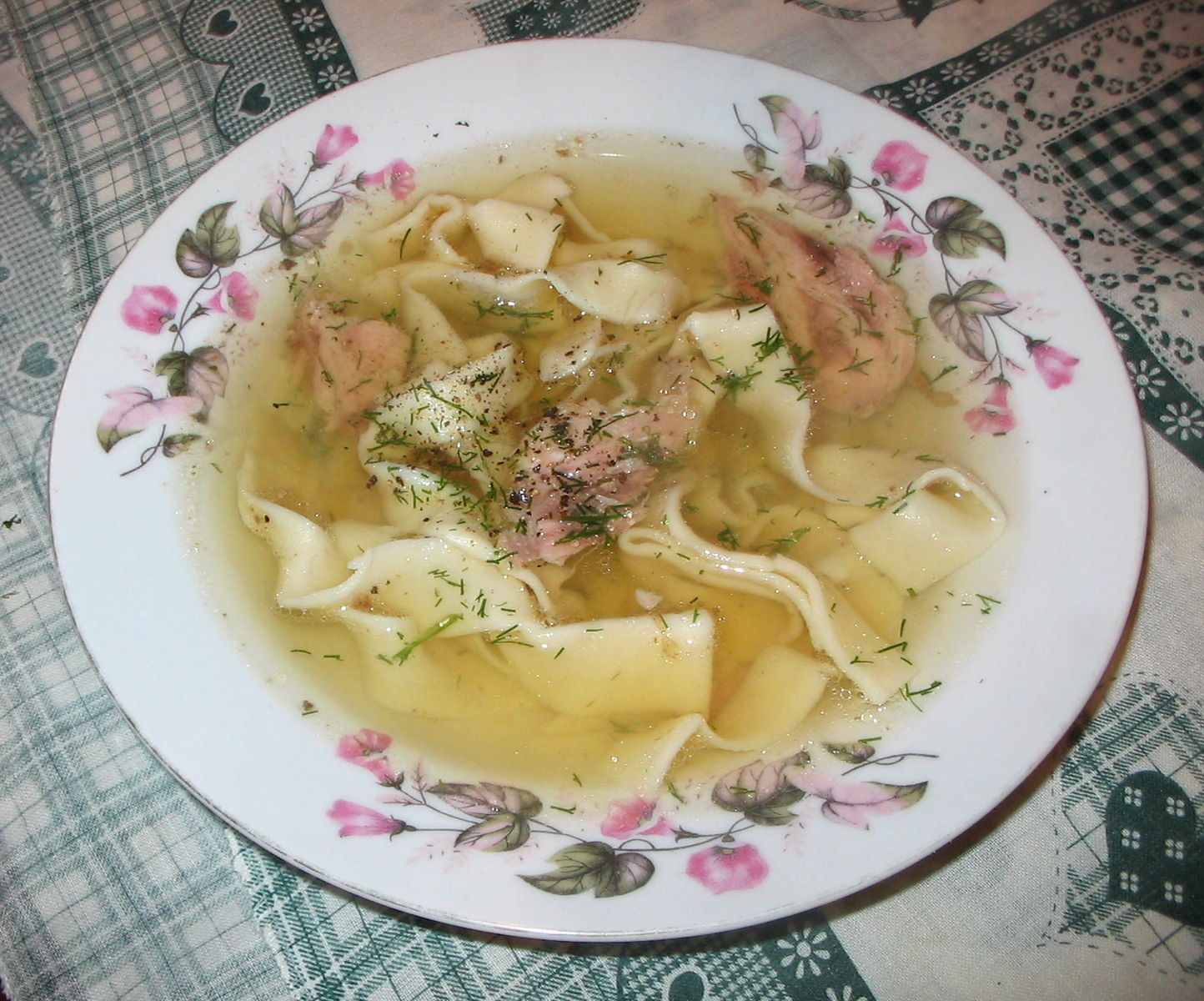 Noodle soup based on chicken boullion